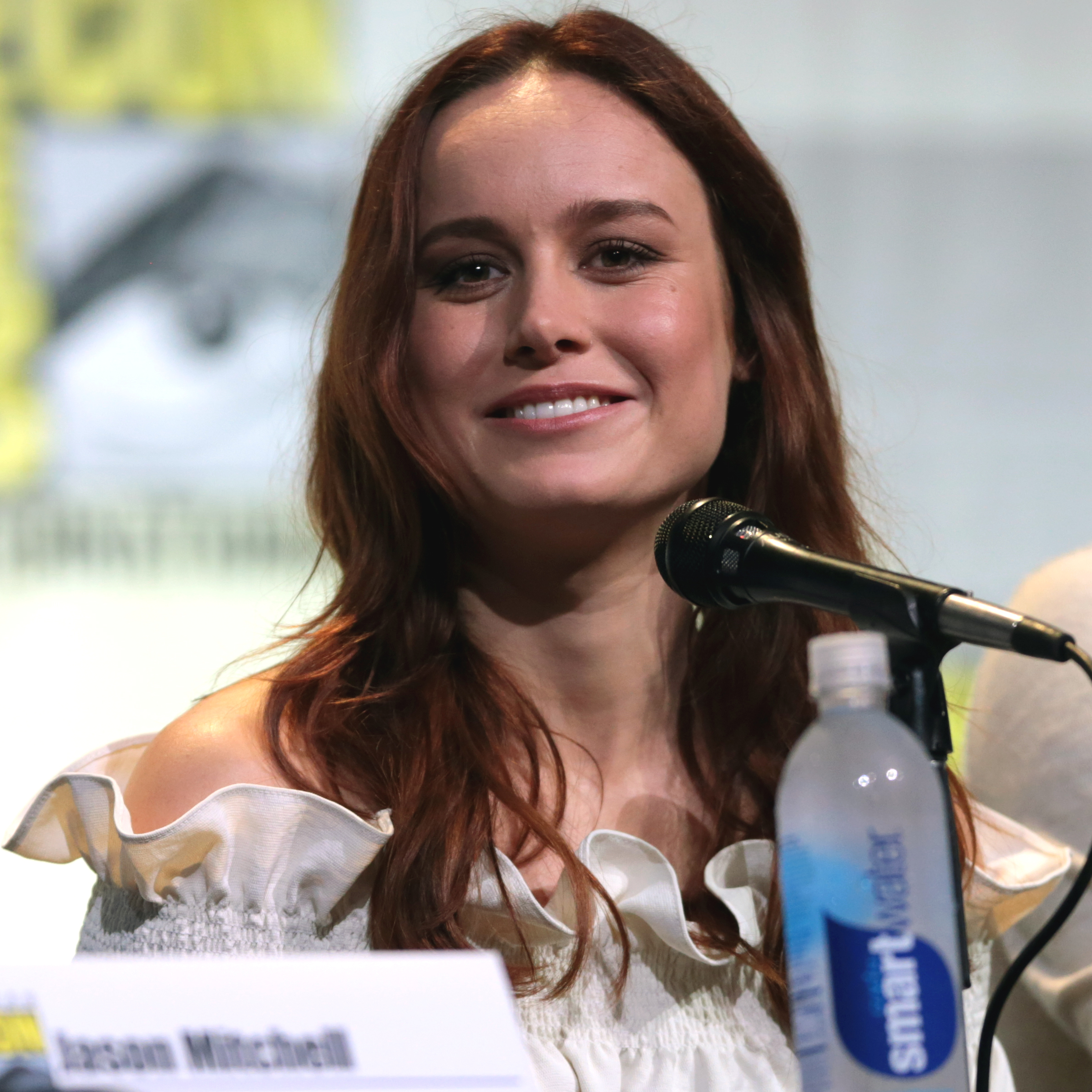 Brie Larson and Tom Hiddleston speaking at the 2016 San Diego Comic Con International, for "Kong: Skull Island", at the San Diego Convention Center in San Diego, California.